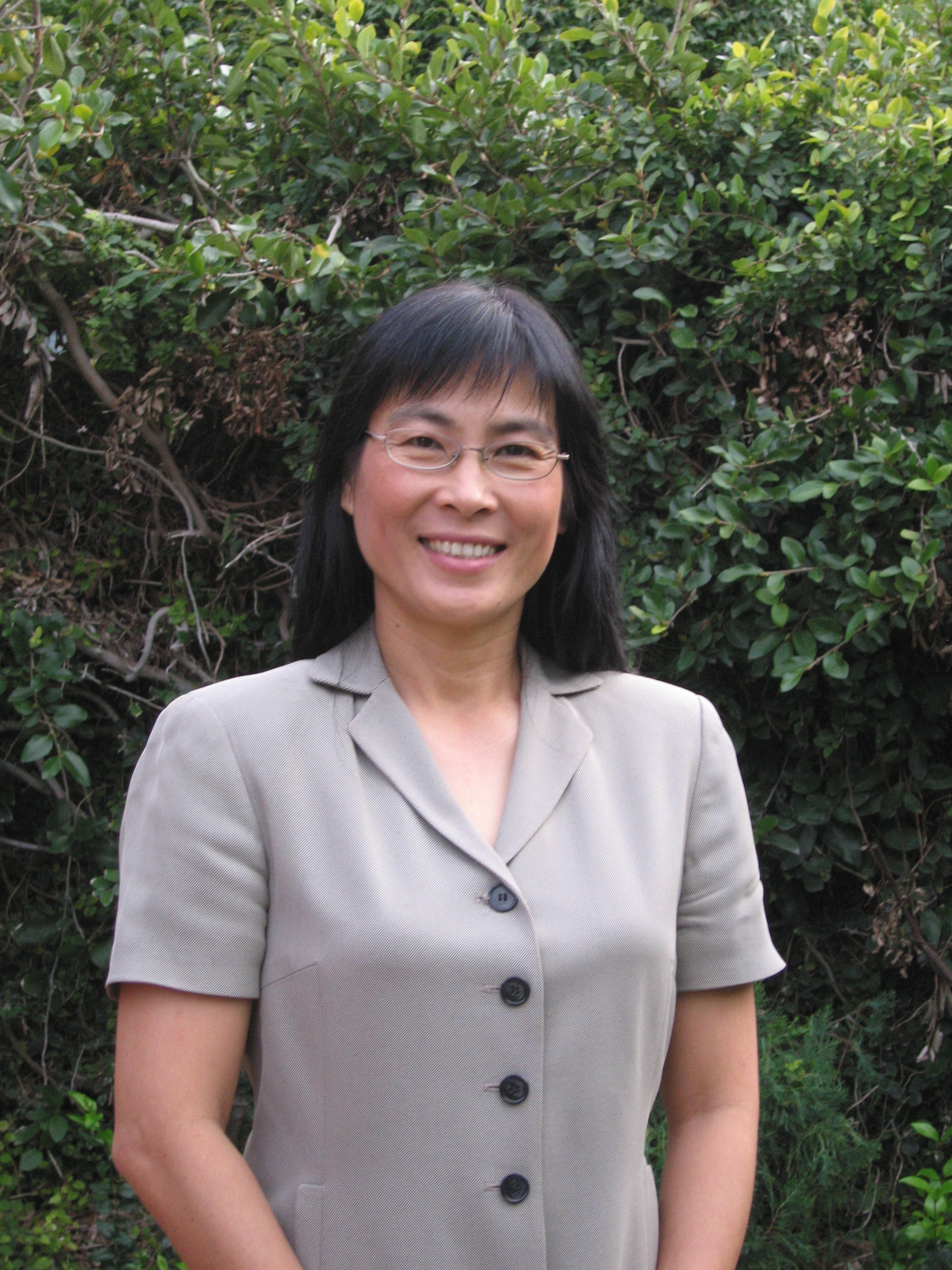 MinZhou